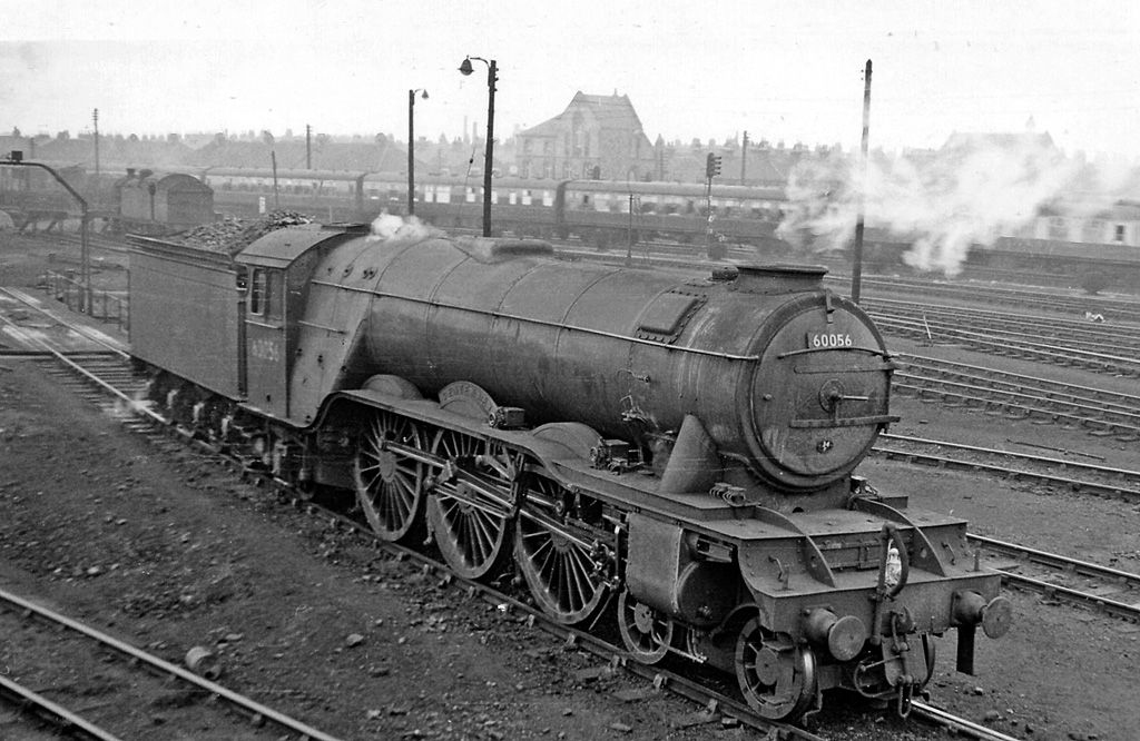 York (North) Locomotive Yard, with Gresley A3 Pacific. View northward, from Leeman Road - which conveniently ran beside the extensive Locomotive Yard that stretched westward from the great roundhouses now incorporated in the National Railway Museum (established in 1975). A3 Pacific No. 60056 'Centenary' is on the line to the 70-foot turntable at the end of the Yard. Beyond is the main ECML coming away from the north end of York Station alongside the Clifton Carriage Sidings. In the left background can be seen an ex-North Eastern A8 4-6-2T.